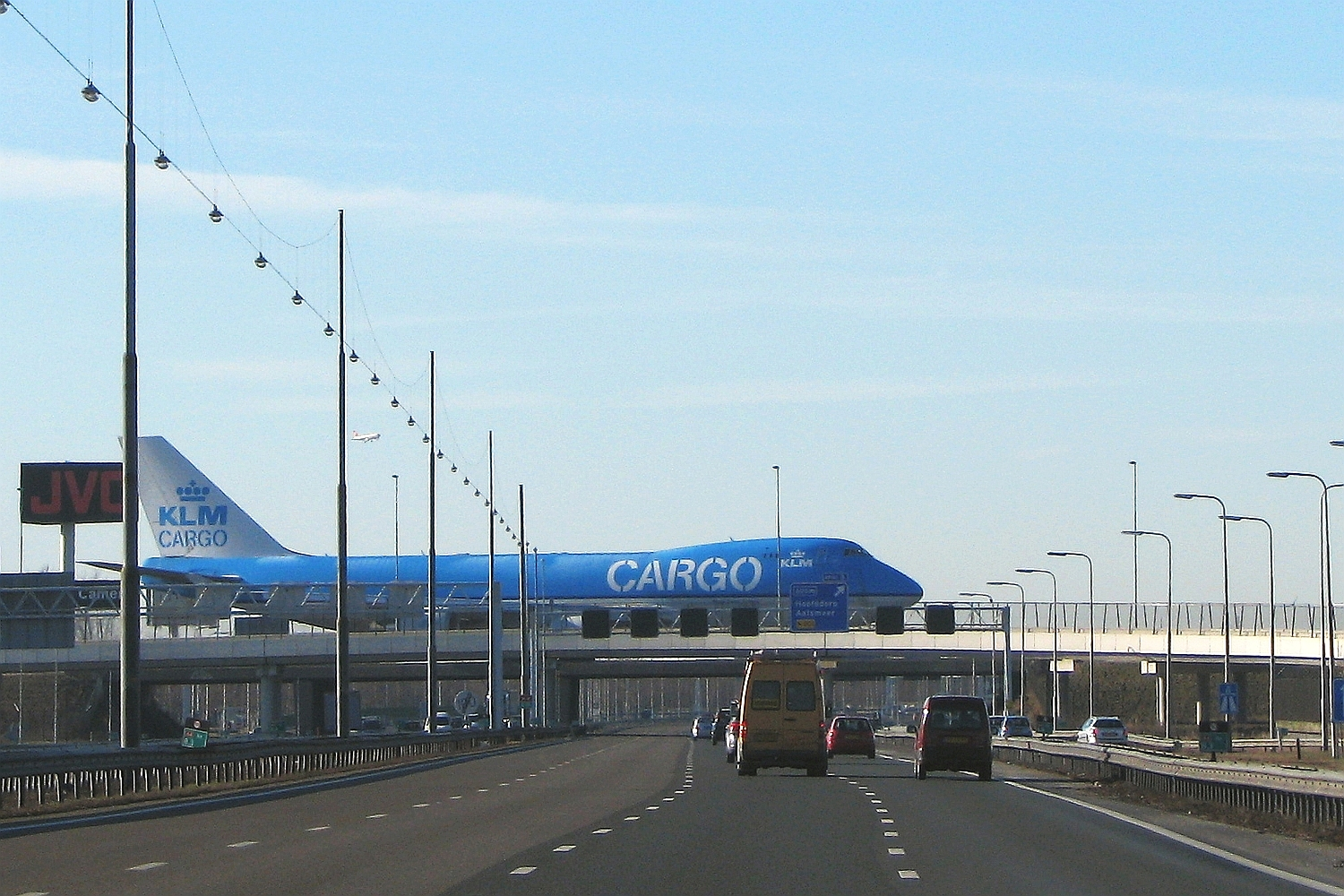 Schiphol Amsterdam Airport KLM Cargo Boeing Jumbo Taxiway Bridge Highway A4 E19 Foto Wolfgang Pehlemann IMG_2267